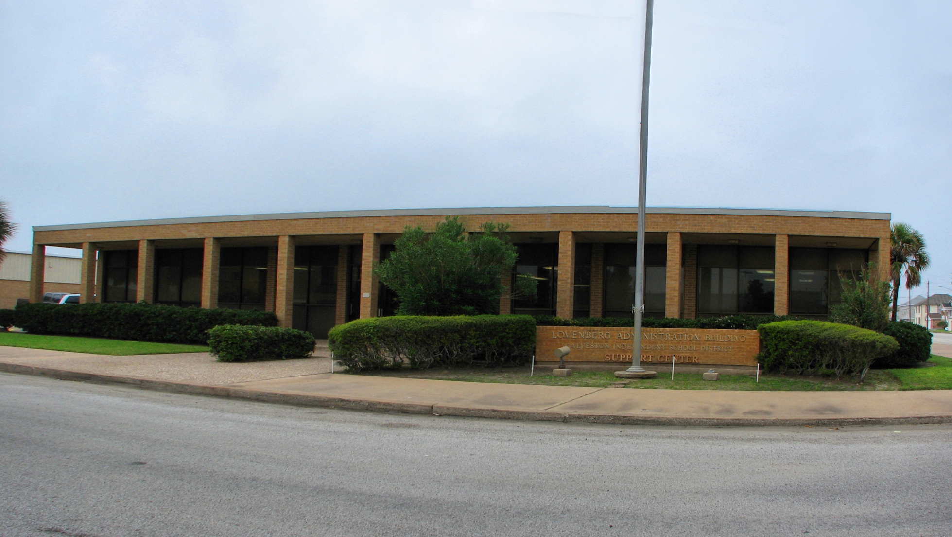 Lovenberg Administration Building, the headquarters of the Galveston Independent School District